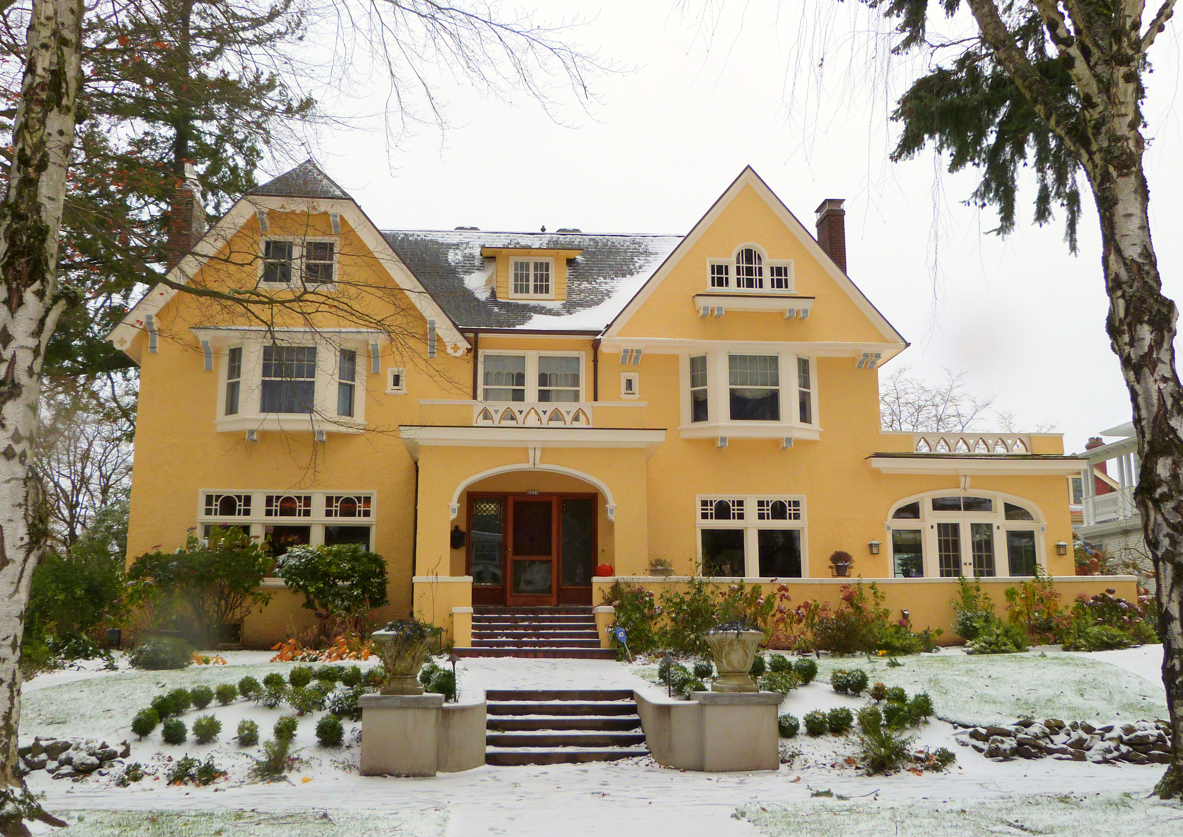 The historic Boschke–Boyd House (built 1911), located at 2211 Northeast Thompson Street in Portland, Oregon, United States, is listed on the U.S. National Register of Historic Places. It is additionally a contributing resource in the National Register-listed Irvington Historic District.